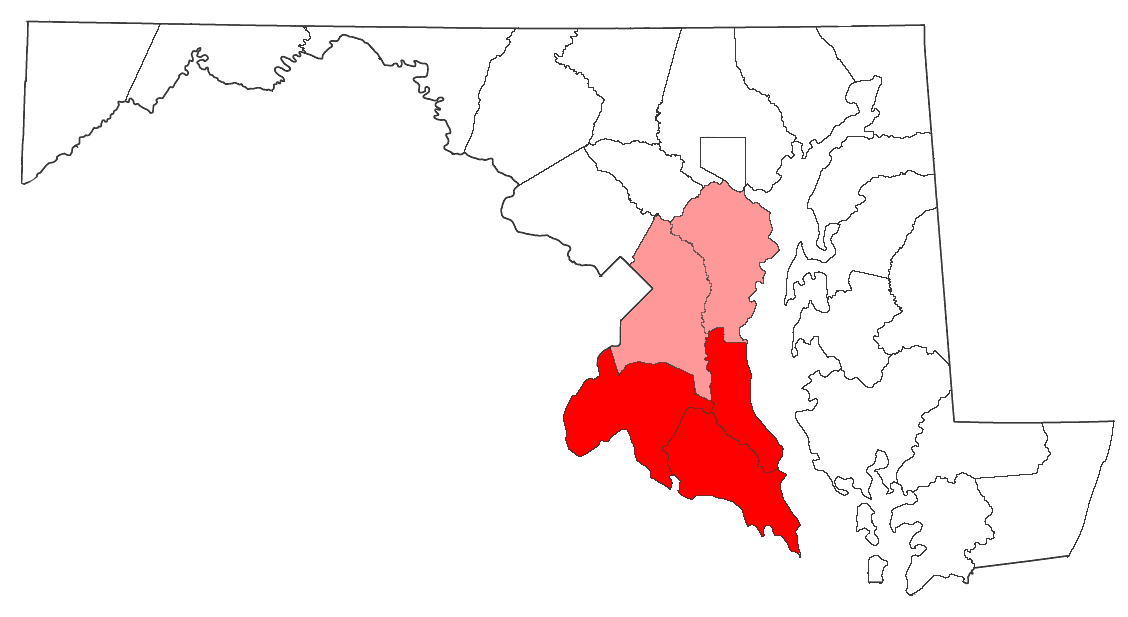 Adapted from a census map